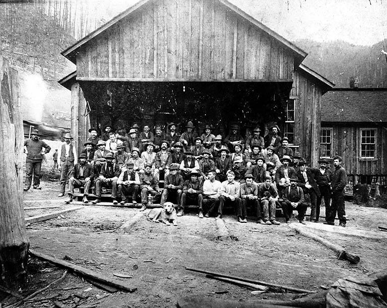 Sawmill crew, Monte Cristo, Washington, ca. 1892 Notes: On verso of image: Monte Cristo 1892/3. Below turntable.